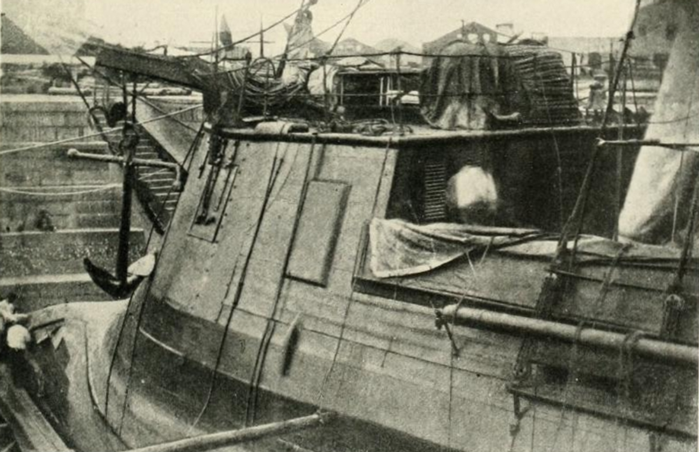 CSS Stonewall